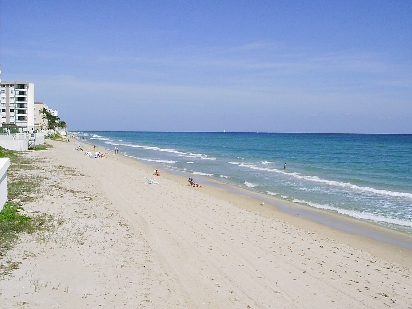 Beach (picture taken facing the north) in the Town of South Palm Beach, Florida.